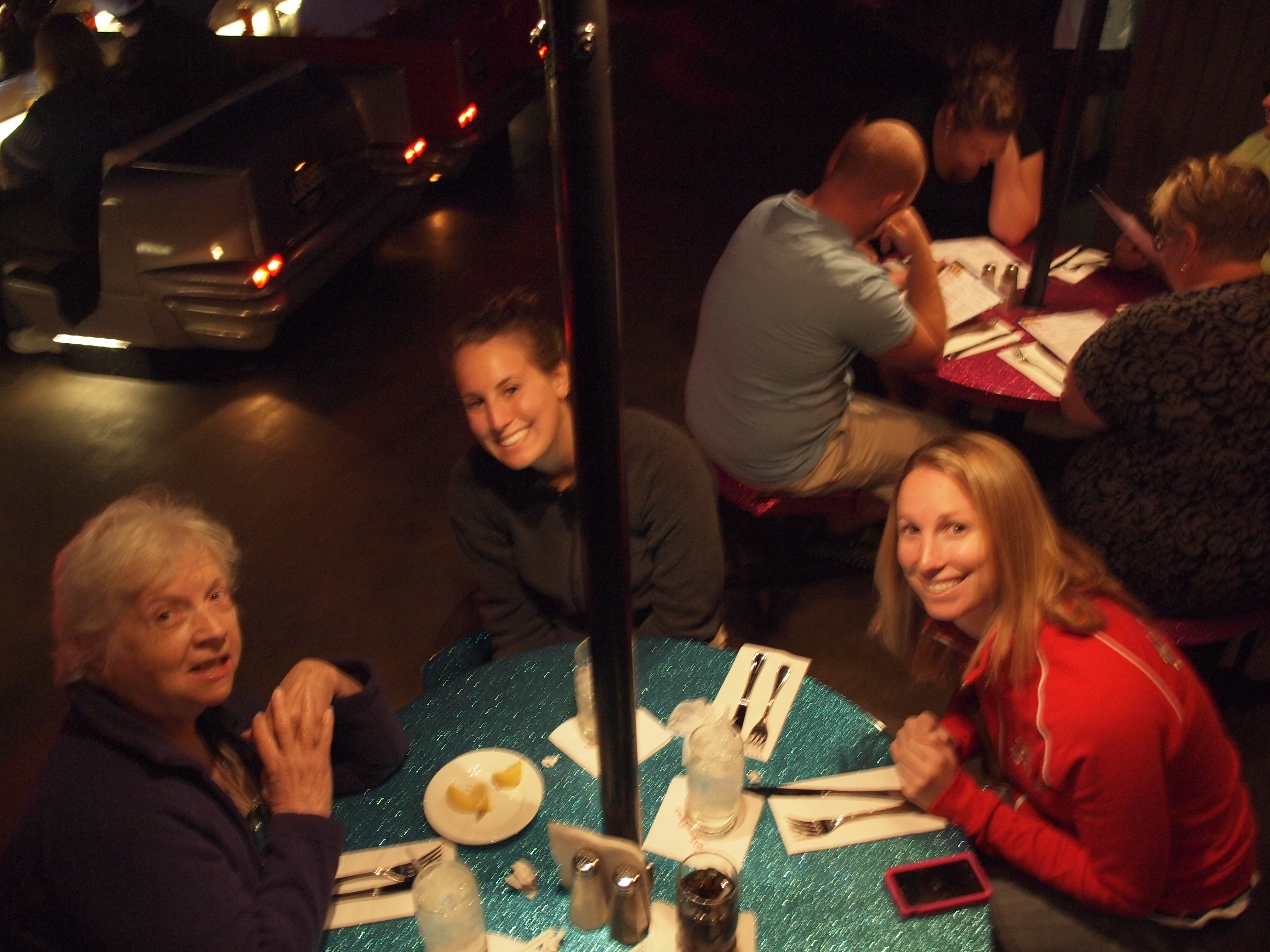 Three women sitting at one of the picnic tables at the back of the Sci-Fi Dine-In Theater Restaurant